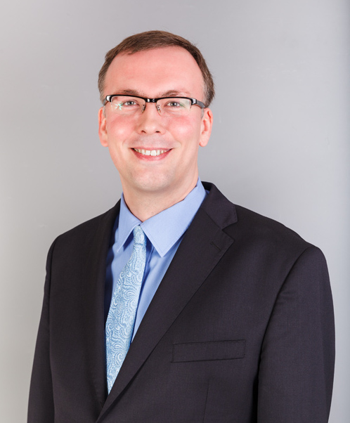 Hýsek